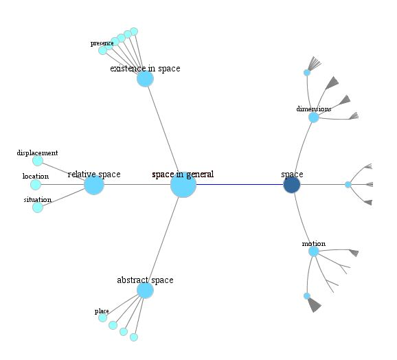 Hyperbolic tree with "Space in genera"l in the centre